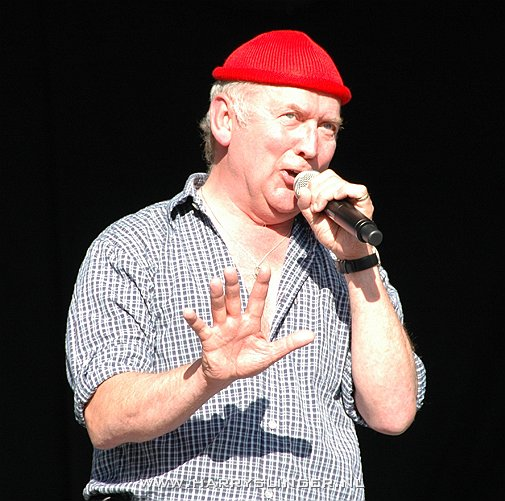 Harry Slinger Dutch singer/songwriter known from the band Drukwerk